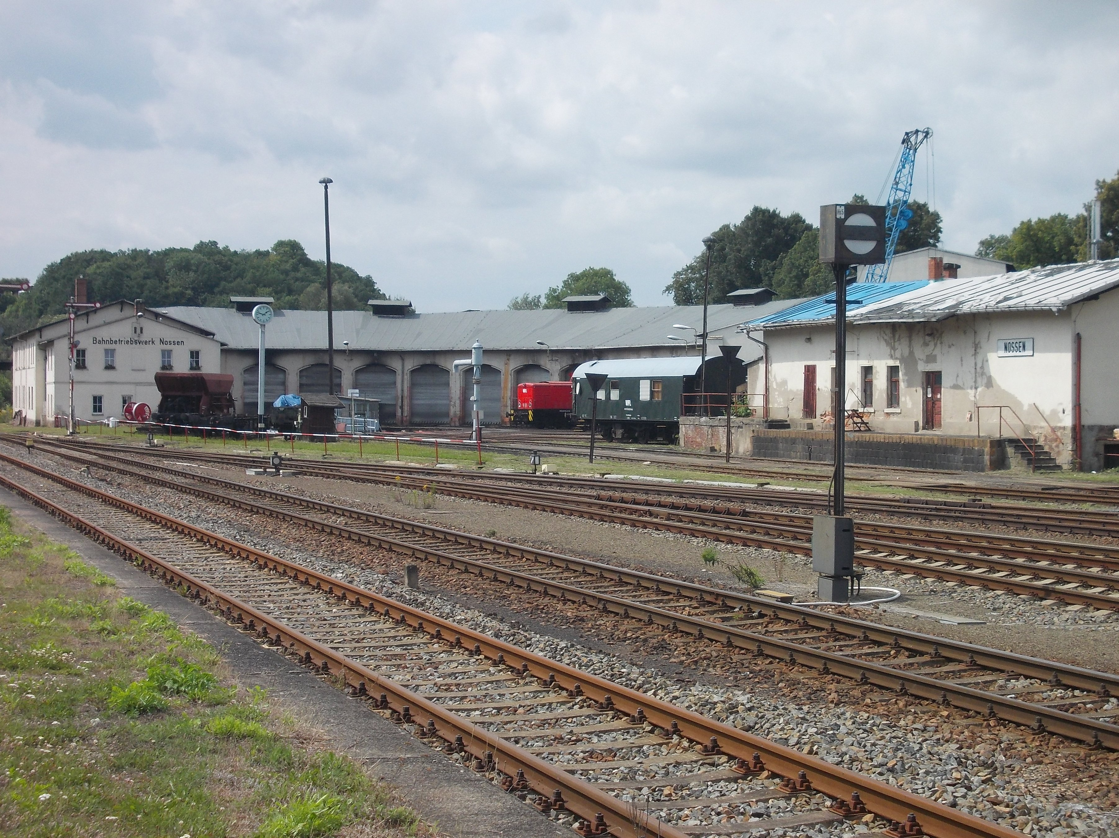 Nossen train station (Meissen district, Saxony), railway depot